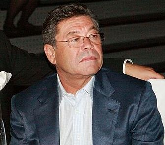 Fattoh Shodiyev